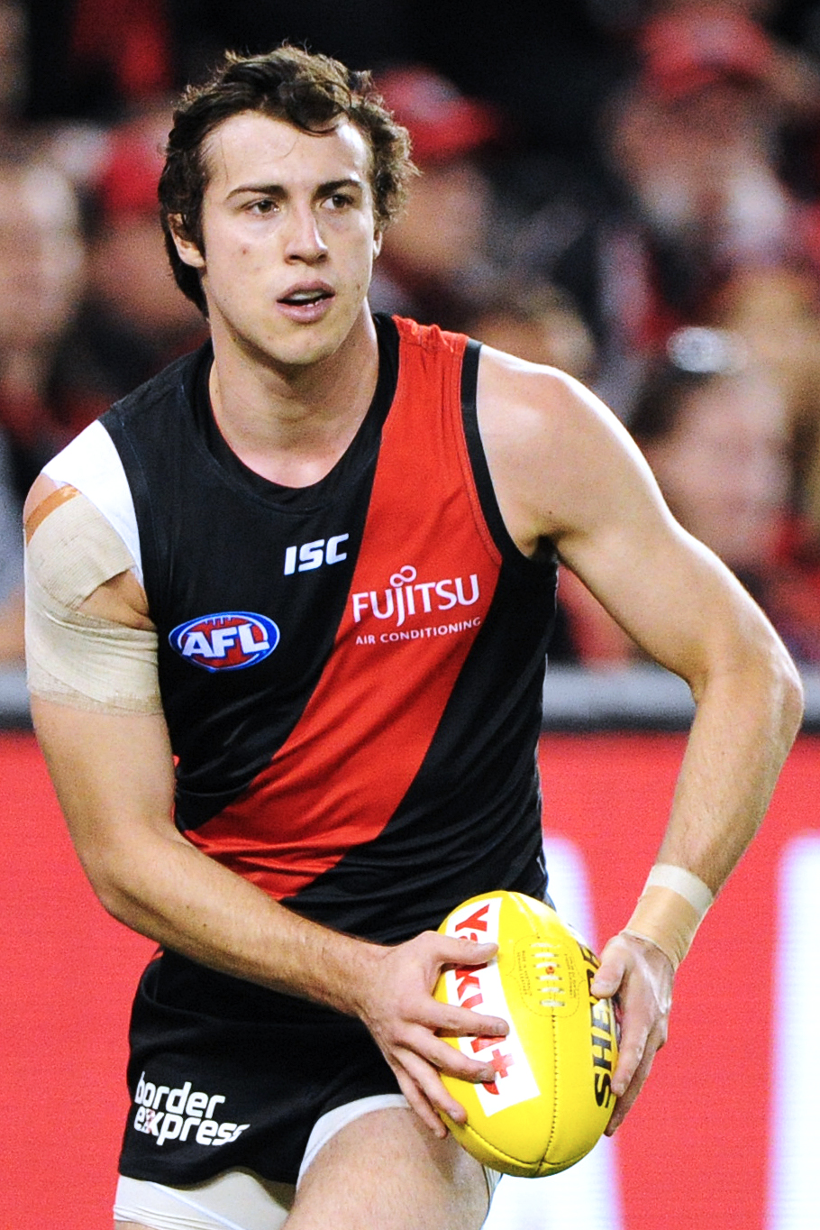 Andrew McGrath of Essendon during the 2018 AFL round 6 match between Essendon and Melbourne at Etihad Stadium on Sunday, 29 April 2018 in Melbourne, Victoria.